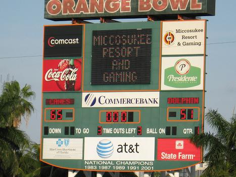 The scoreboard at the Orange Bowl's last event, a flag-football game between former Miami Dolphin and Miami Hurricane players.